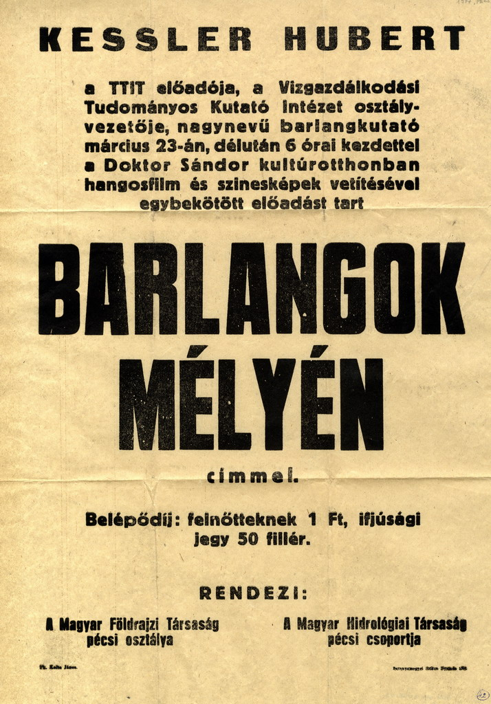 Advertising poster of lecture